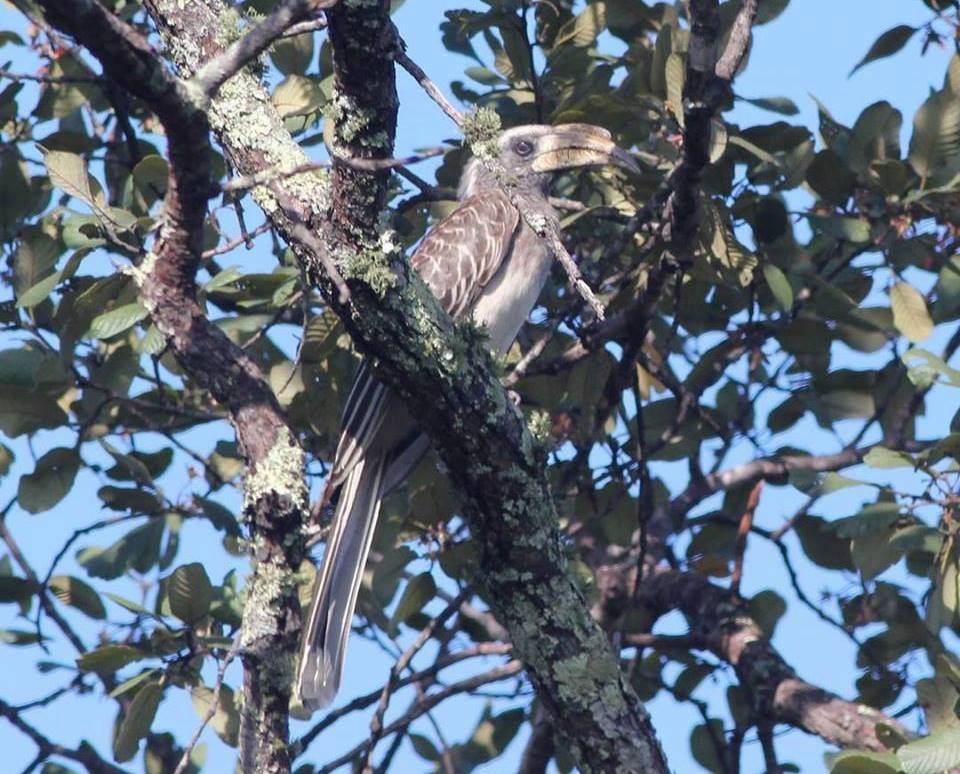 An adult female Pale-billed hornbill at Cuchi in Angola